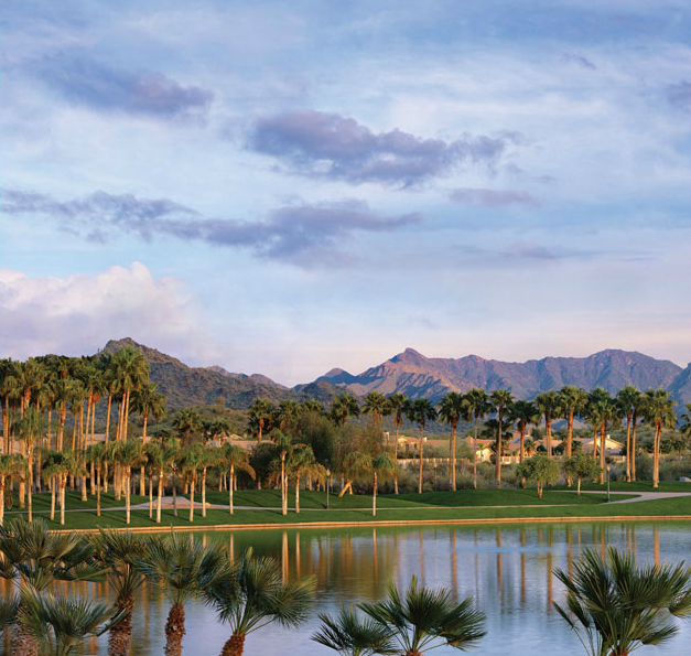 Estrella Community